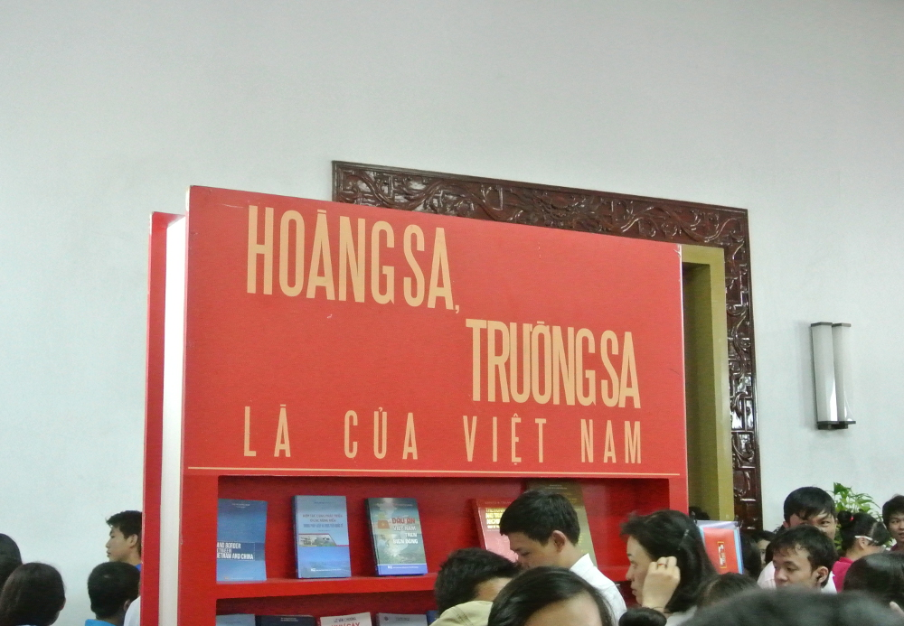 Vietnamese government make campaign event about territorial dispute for Paracel and Spratly islands. (at Reunification palace SaiGon、2013)